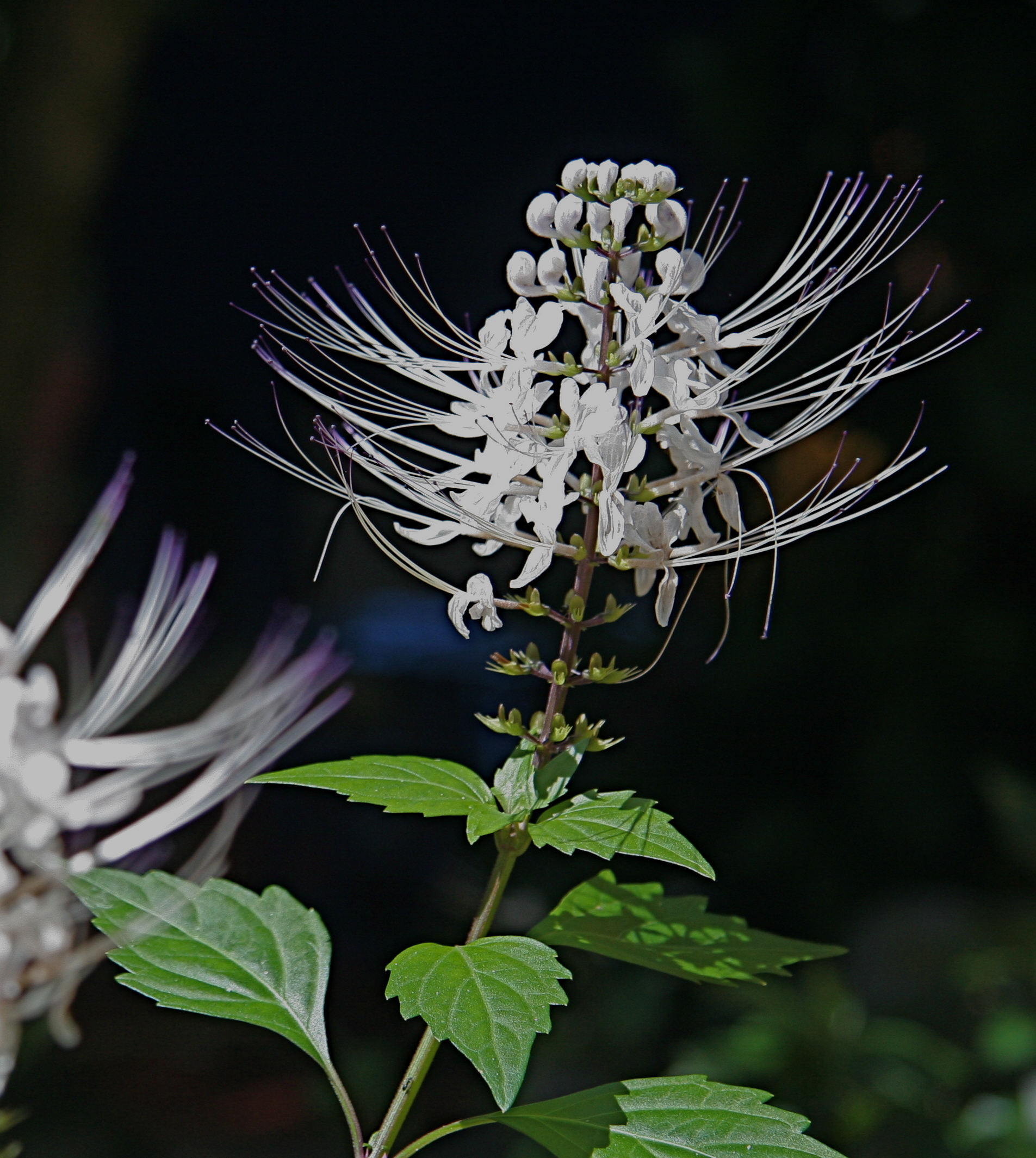 Orthosiphon aristatus - seen in Port Douglas, Queensland.